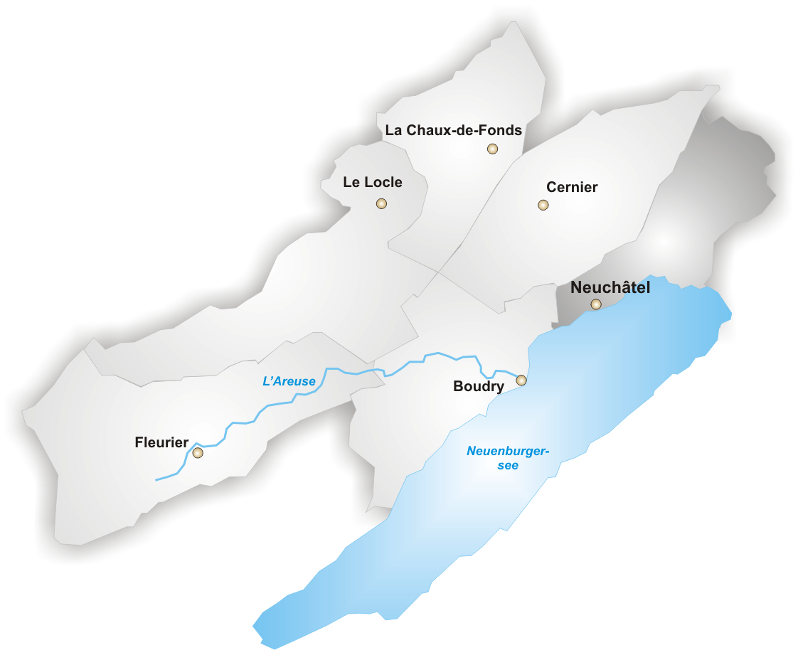 District Neuchâtel